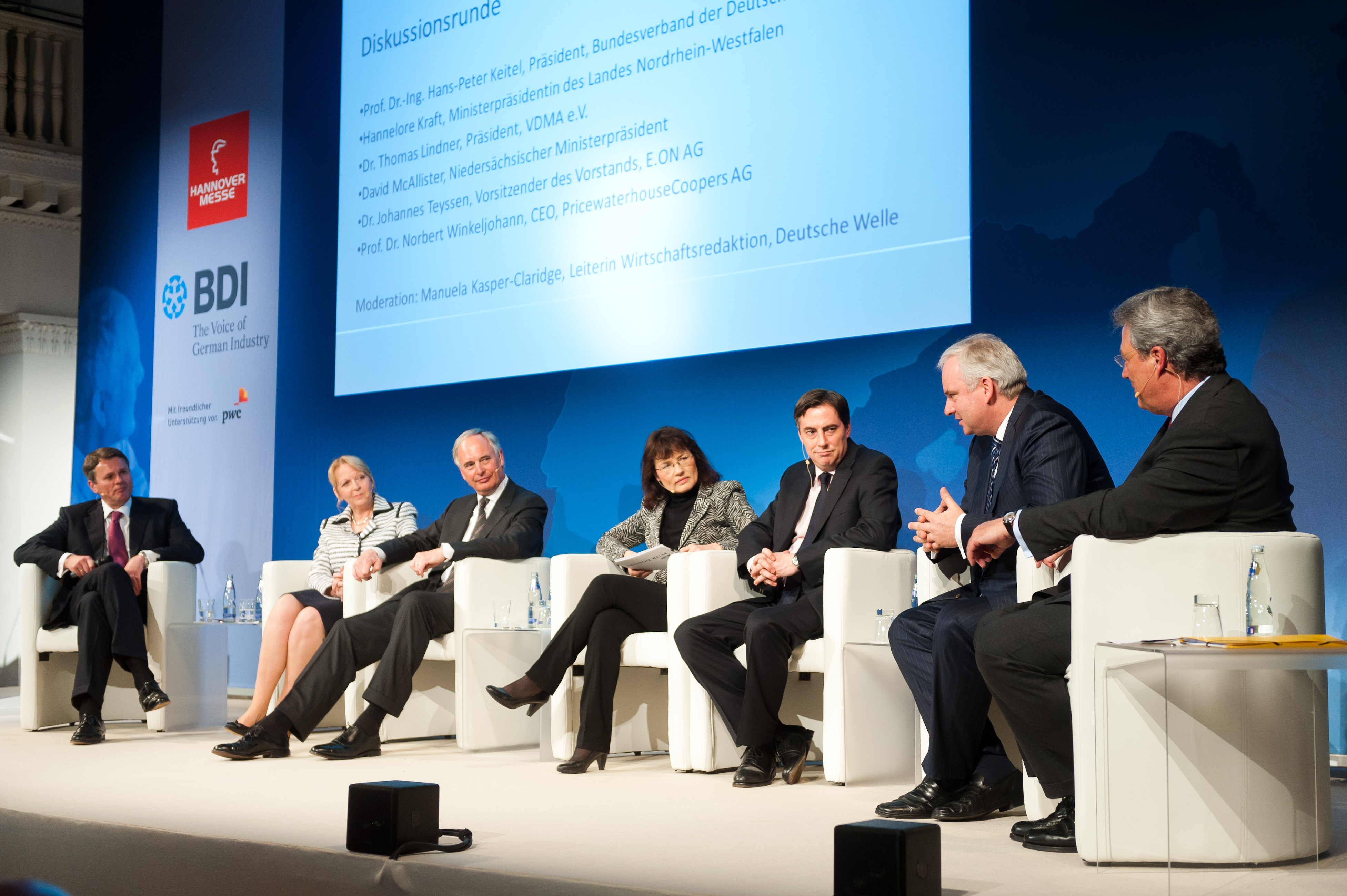 Hanover Trade Fair in 2011 (left to right): Norbert Winkeljohann, Hannelore Kraft, Hans-Peter Keitel, Manuela Kasper-Claridge (presenter), David McAllister, Johannes Teyssen, Thomas Lindner (VDMA)